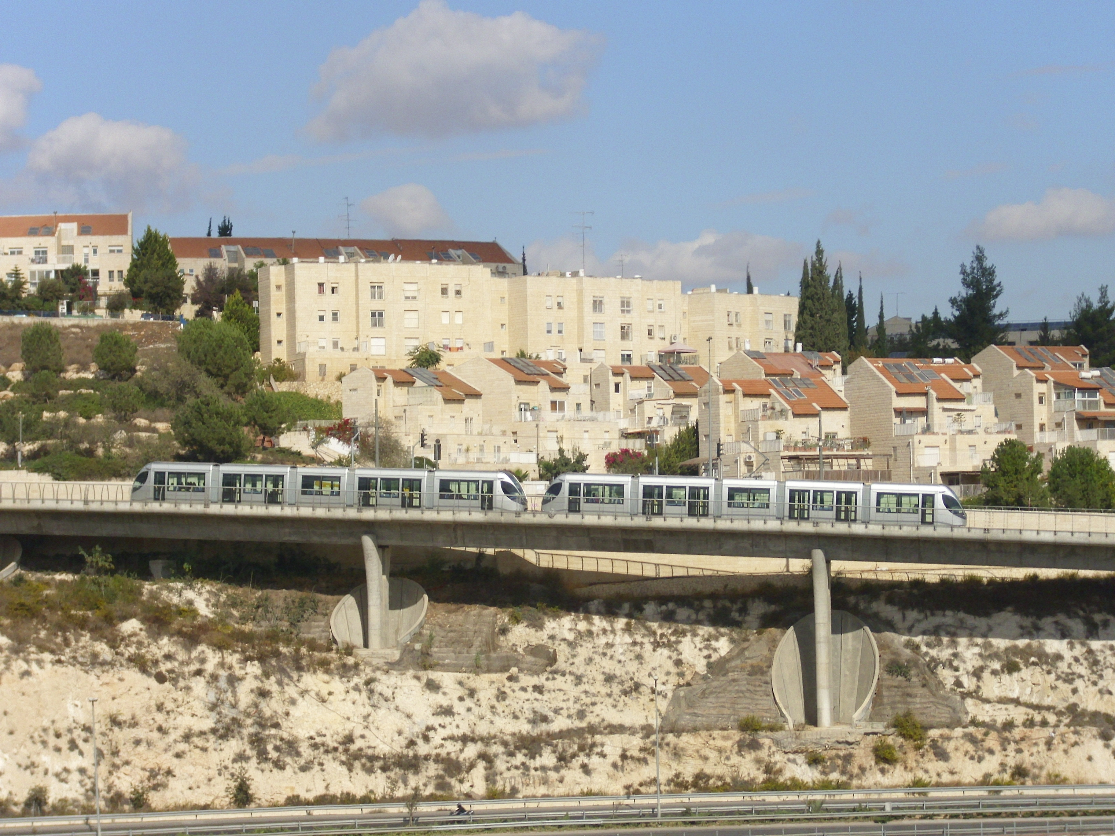 New Adam Bridge, Pisgat Ze'ev